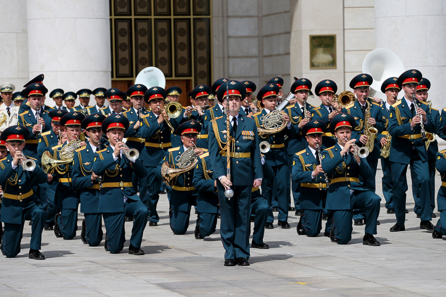 The Central Military Band of the Ministry of Defense of Russia performing during a festival in 2014.